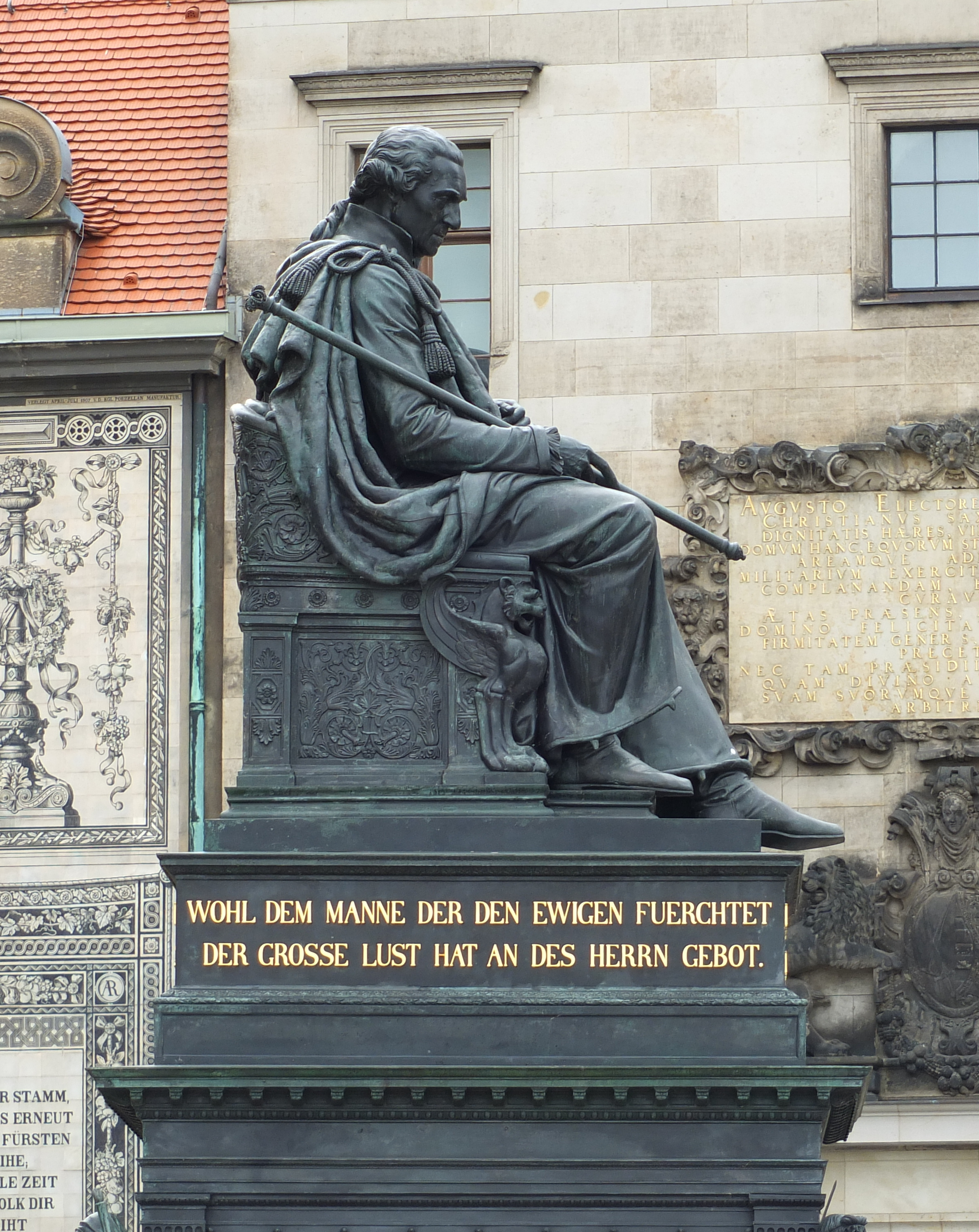 Statue of Frederick Augustus I of Saxony by Ernst Rietschel (1804–1861), at the Schlossplatz, Dresden, Germany.